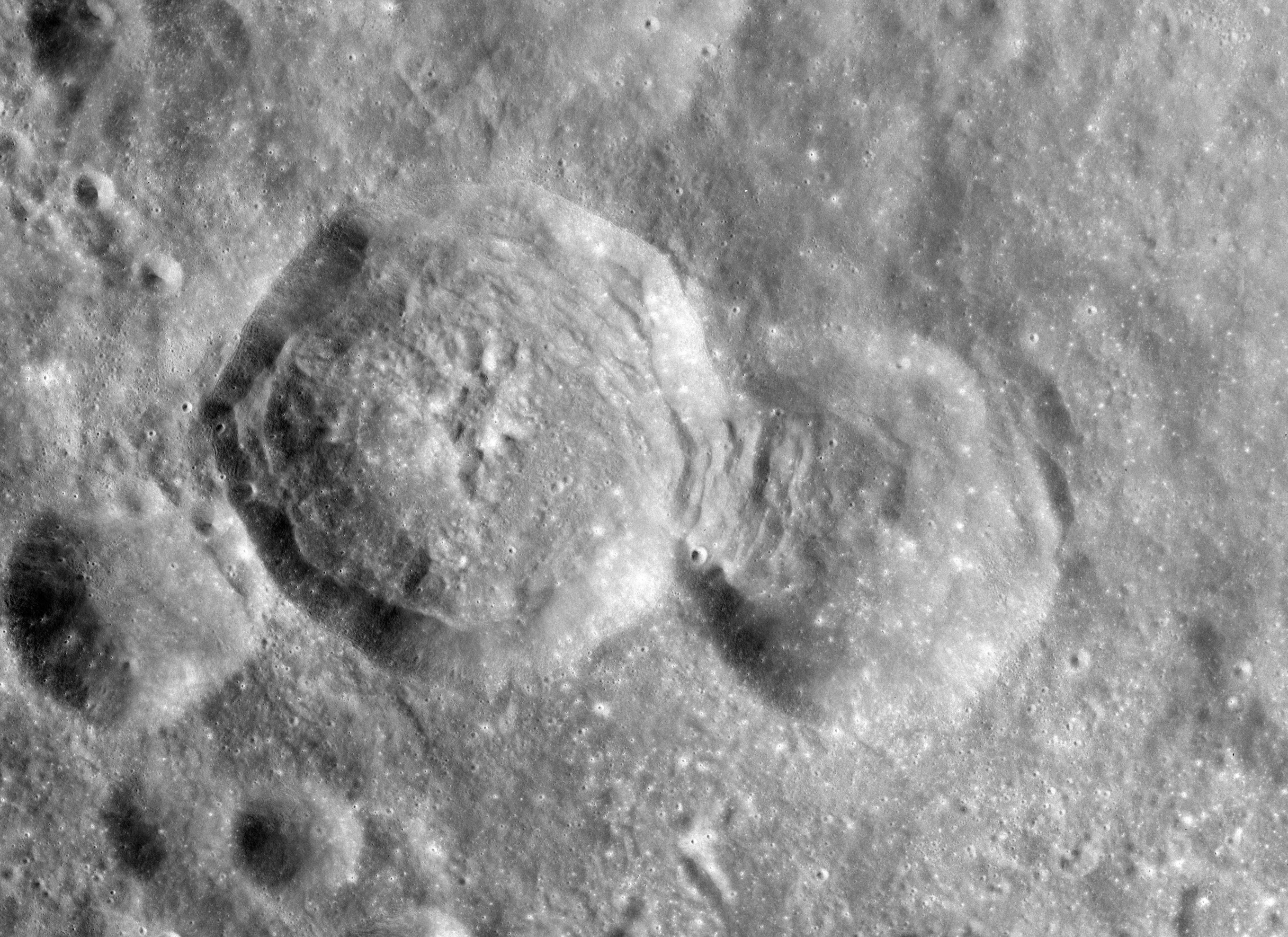 Shirakatsi (left) and Dobrovol'skiy (right), on the far side of the moon.